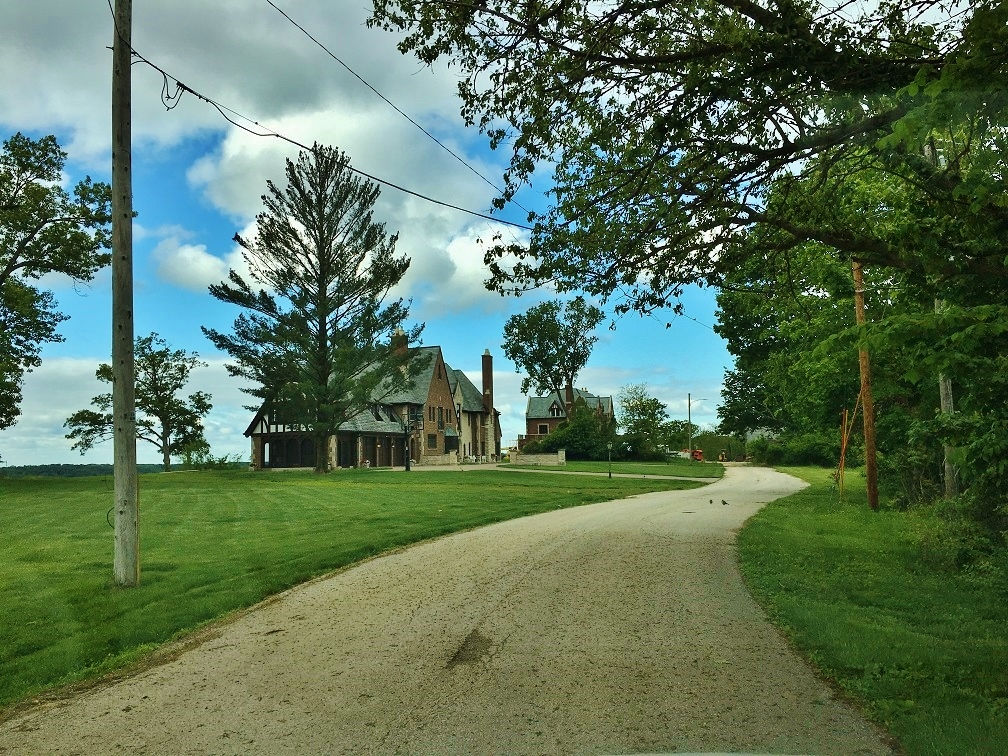 The Craig and Virginia Sheaffer House and the Walter A. Sheaffer House are located on private drive signed no trespassing. Walter Sheaffer House shows at left and Craig Sheaffer House is behind and right.